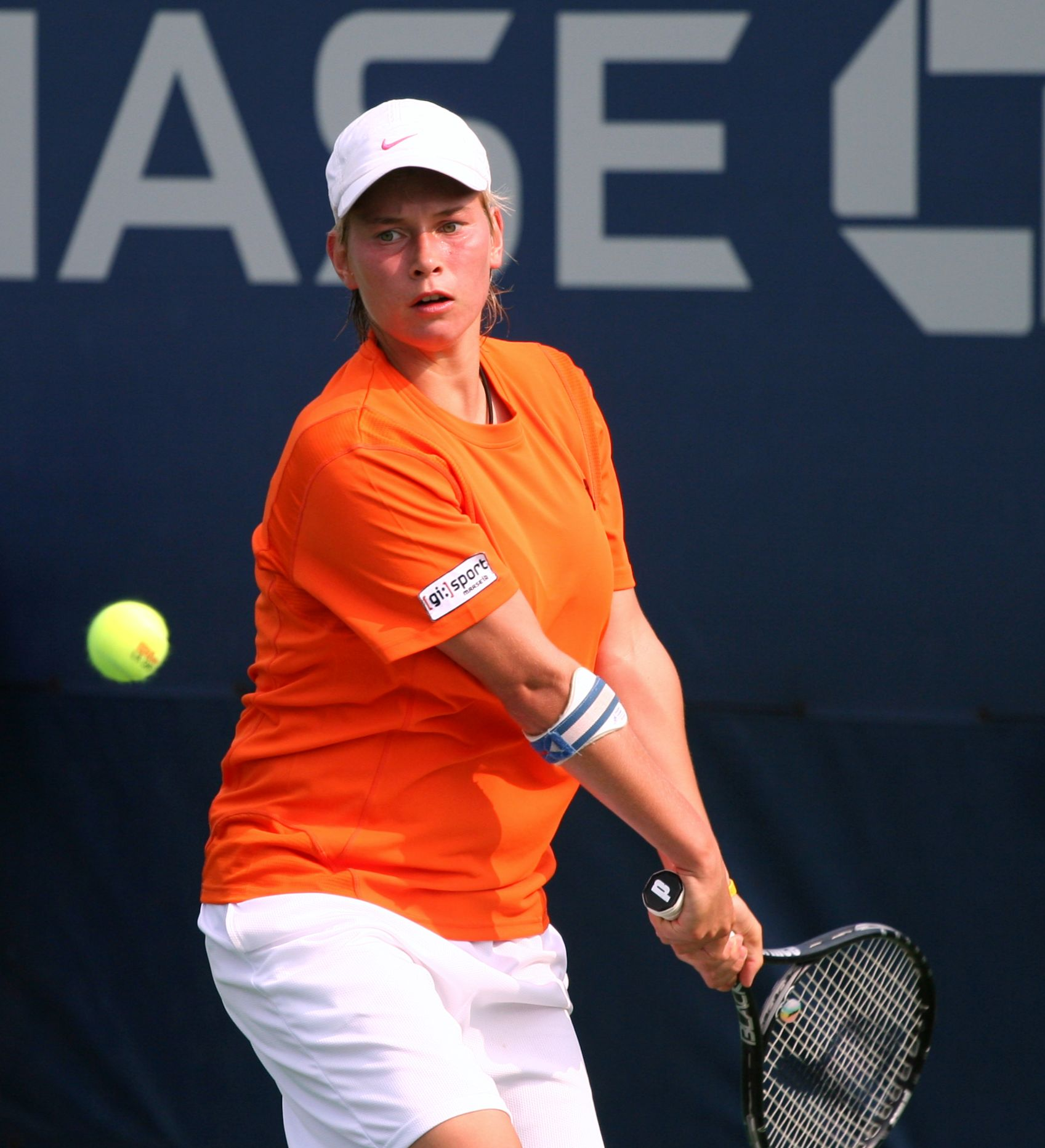 Demi Schuurs at the 2011 US Open junior doubles event